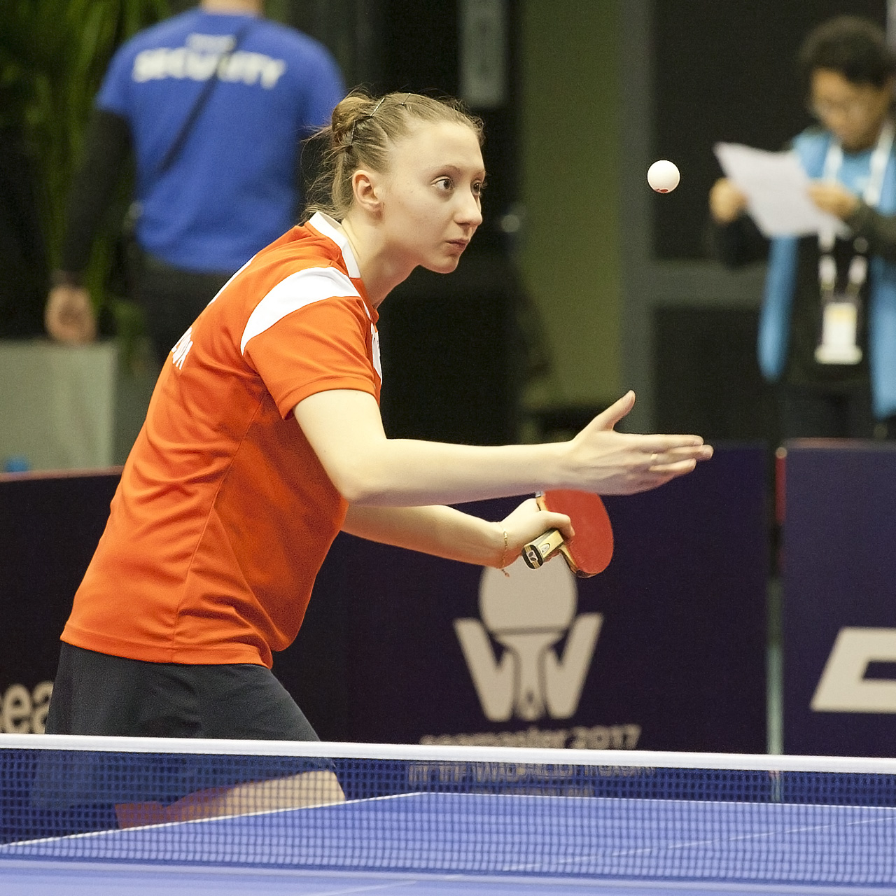 ITTF World Tour 2017 German Open, Magdeburg, Germany, 7 Nov 2017 - 12 Nov 2017, Sofia Polcanova